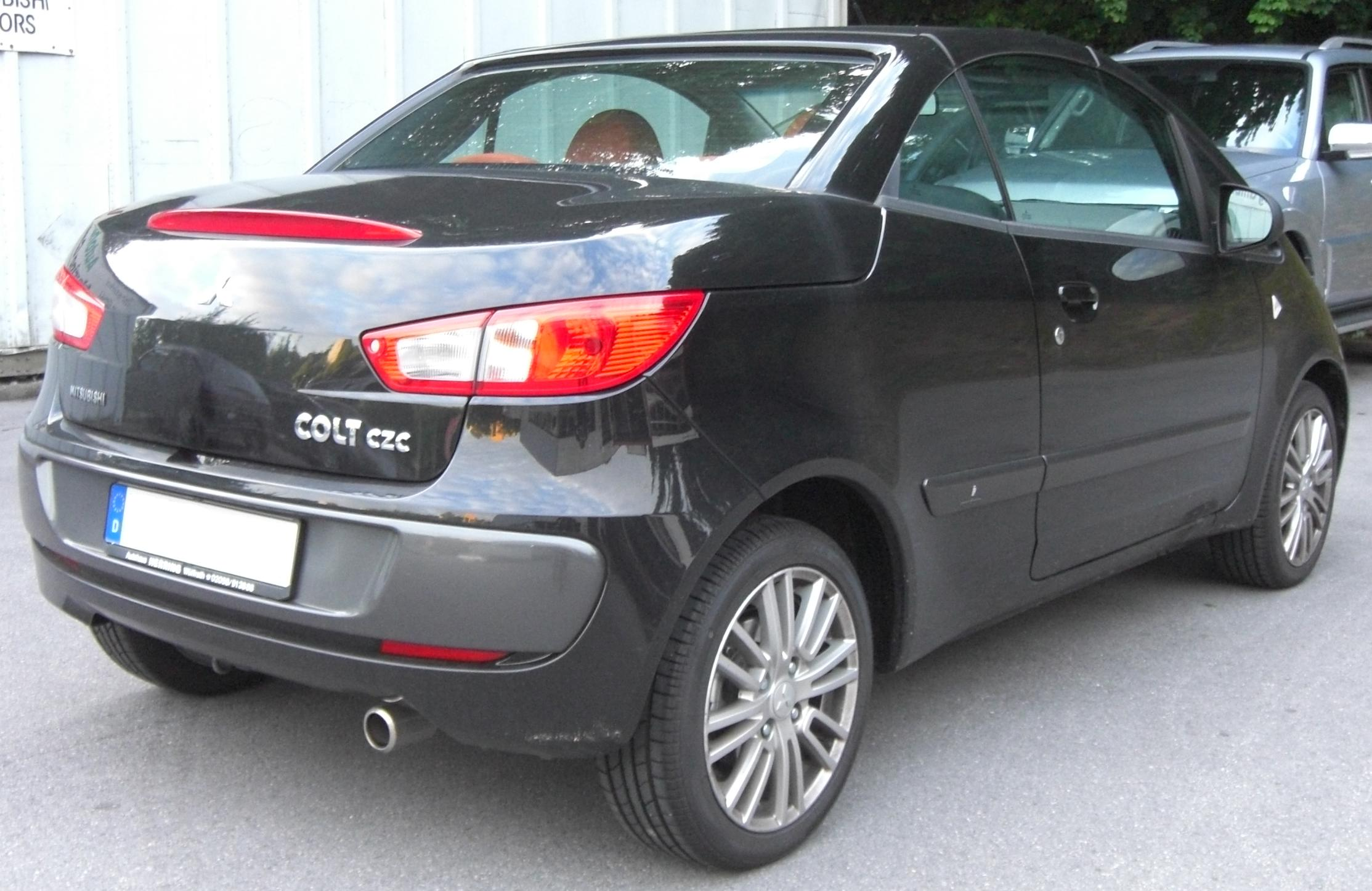 Mitsubishi Colt CZC